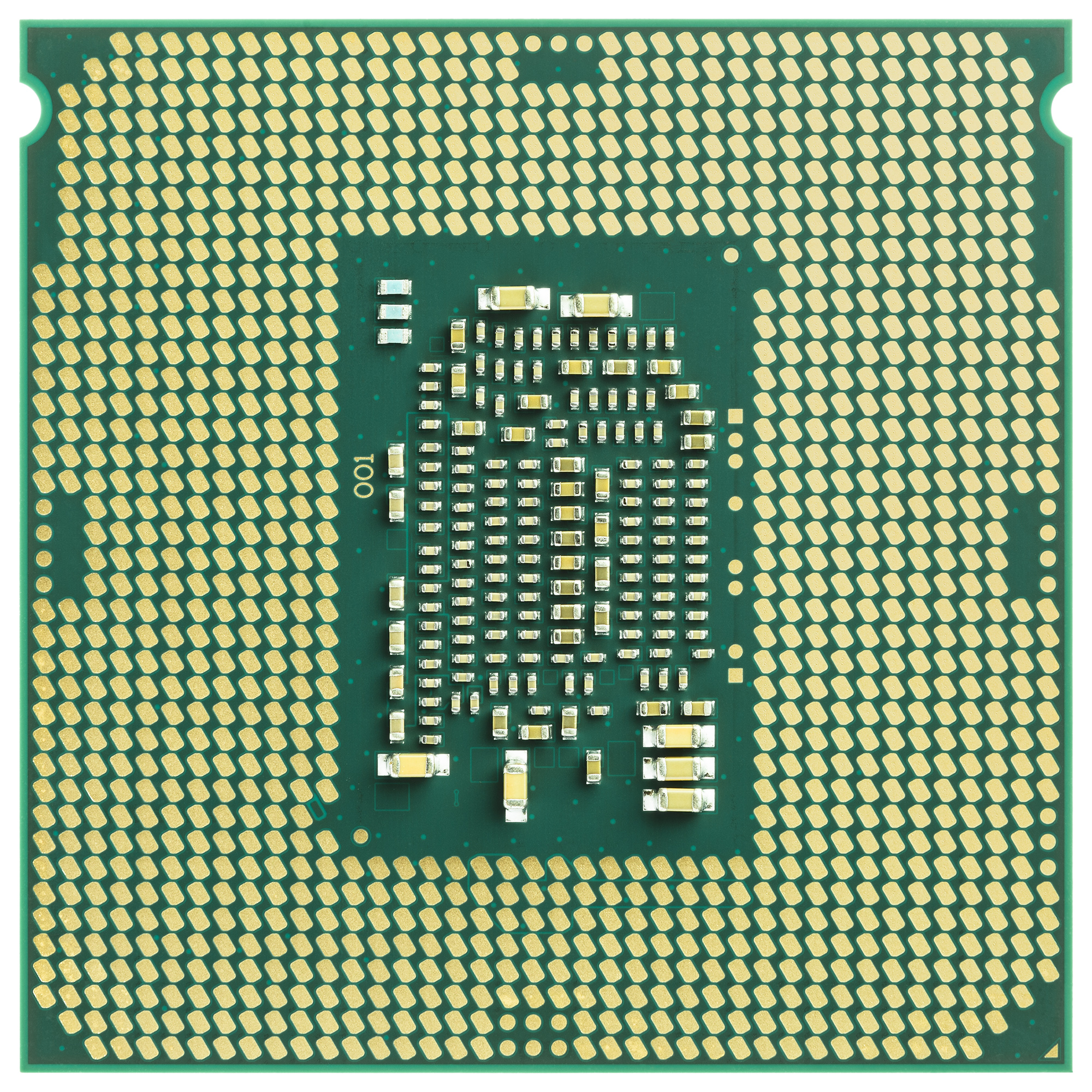 Bottom view of an Intel central processing unit Core i7 Skylake type core, model 6700K. LGA 1151 socket, 14 nm process, core frequency 4.00 GHz. Manufactured in Vietnam.